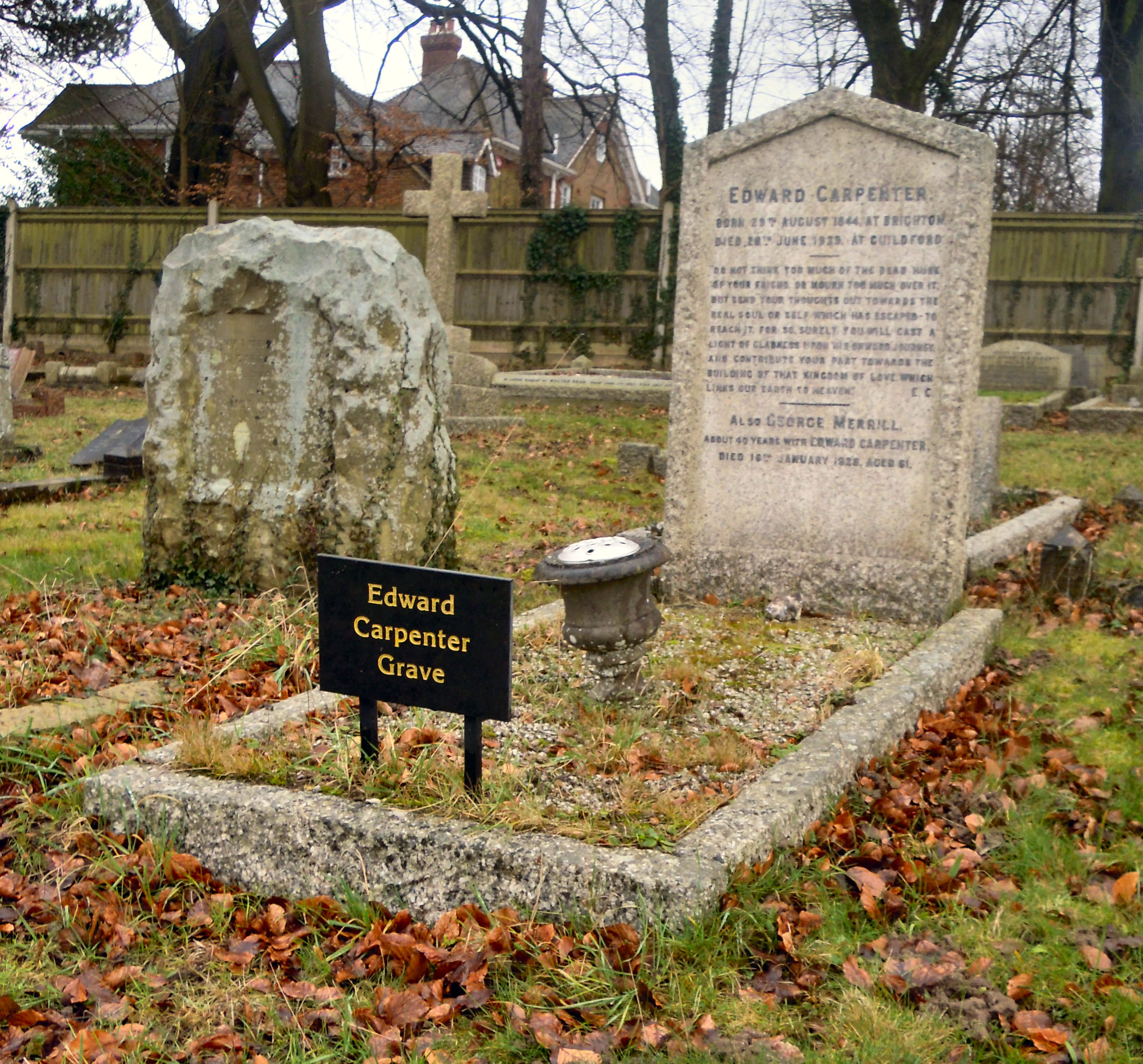 Photograph of the grave of philosophical poet Edward Carpenter and George Merrill at the Mount Cemetery in Guildford